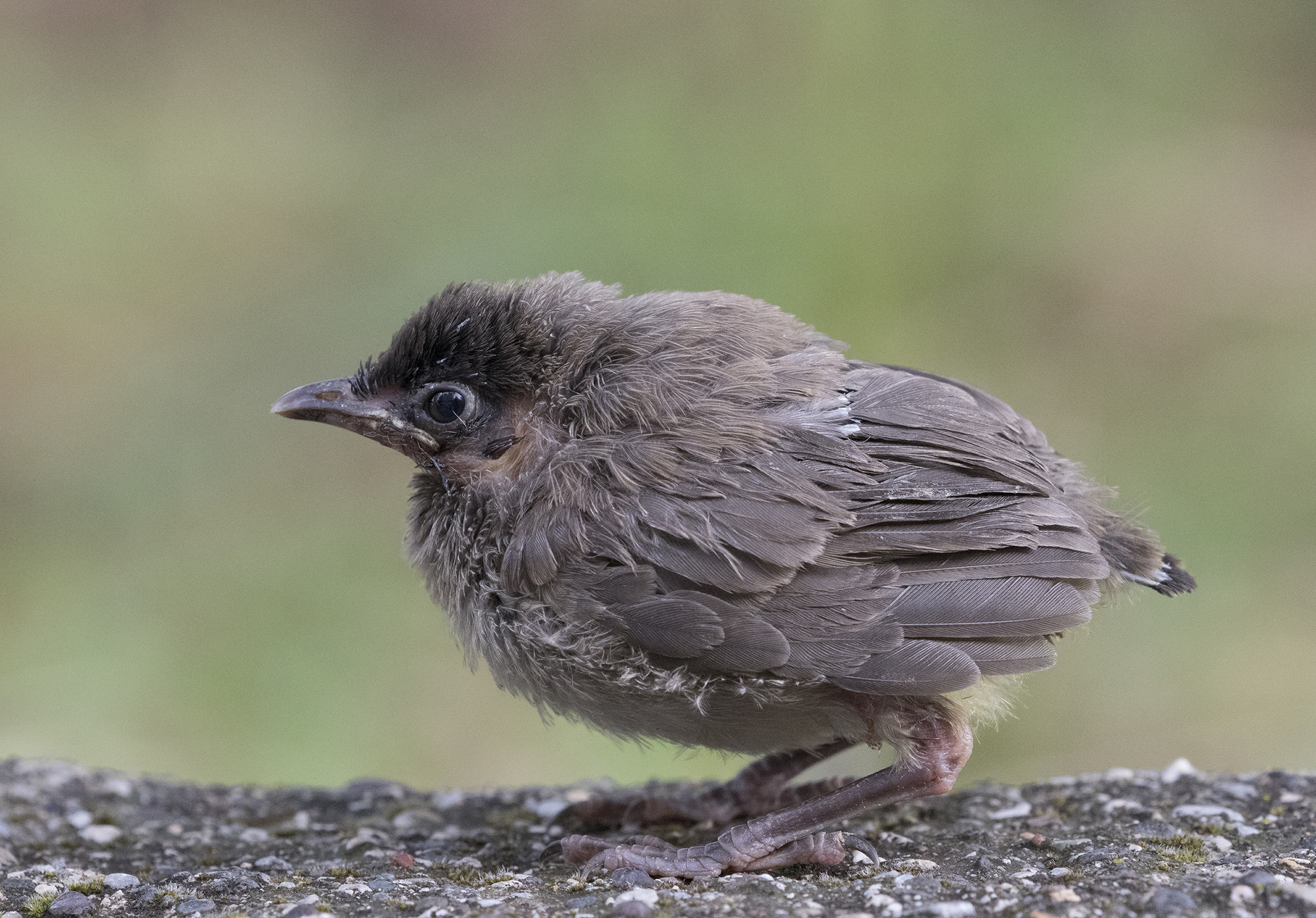 A fledgling of White-spectacled Bulbul (Pycnonotus xanthopygos). Balcalı, Adana - Turkey.